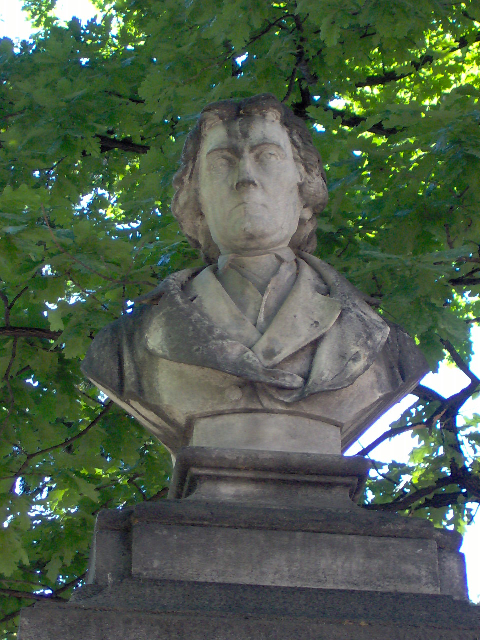 Portrait bust of Josef Dobrovský (1753-1829), Bohemian philologist and historian, Kampa Island, Prague.